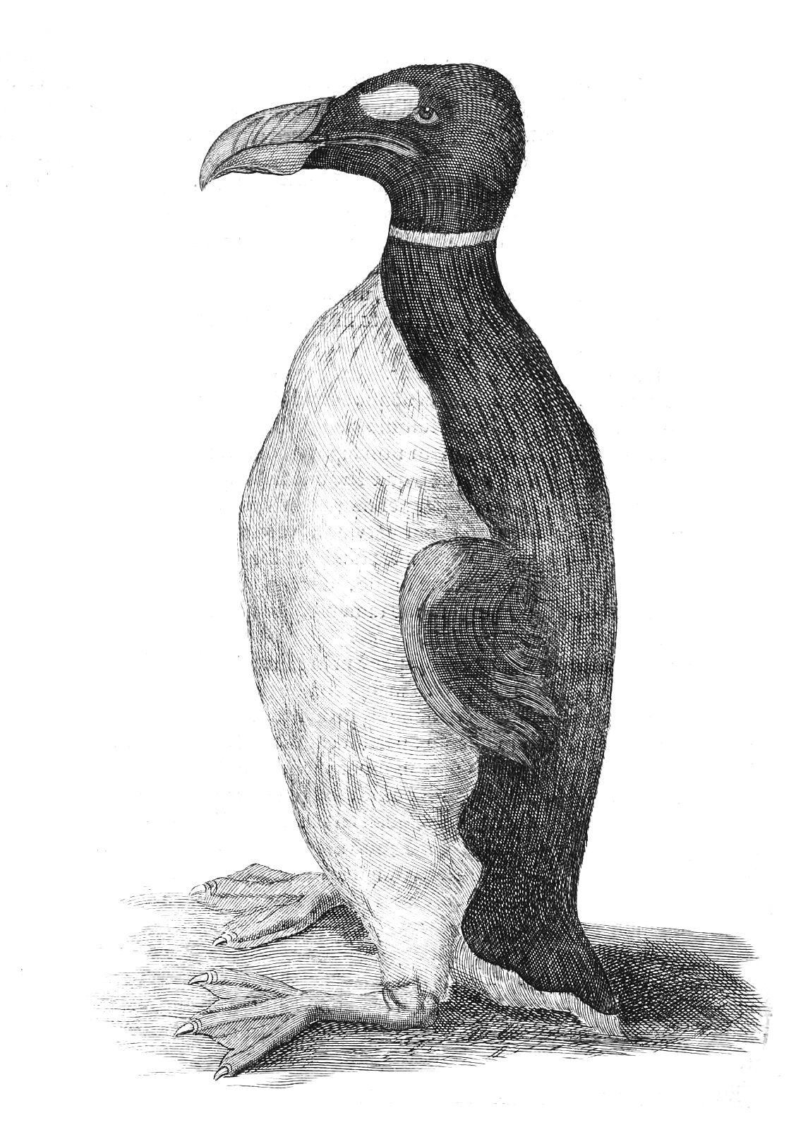 Only known illustration of a Great Auk drawn from life, Ole Worm's pet received from the Faroe Islands, which was figured in his book Museum Wormianum.